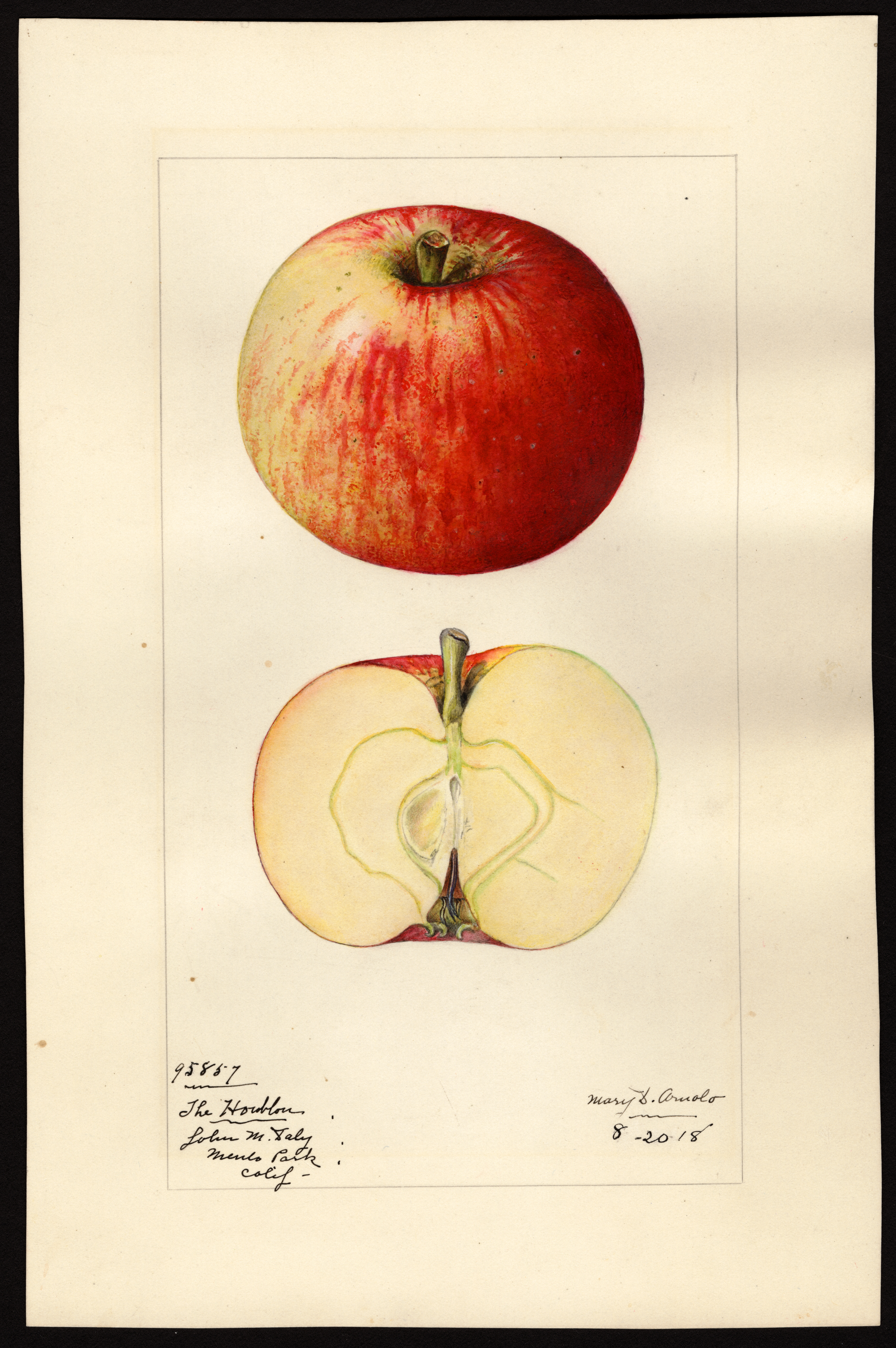 Image of the Houblon variety of apples (scientific name: Malus domestica), with this specimen originating in Menlo Park, San Mateo County, California, United States. Source: U.S. Department of Agriculture Pomological Watercolor Collection. Rare and Special Collections, National Agricultural Library, Beltsville, MD 20705.